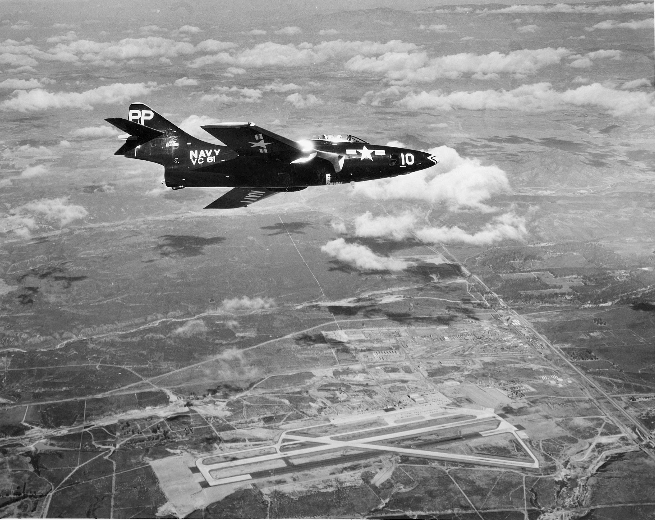 A U.S. Navy Grumman F9F-6P Cougar reconnaissance plane (BuNo 134458) assigned to composite squadron VC-61 Eyes of the Fleet in flight over Naval Air Station Miramar, California (USA), 4 March 1954. The squadron was based at the air station.